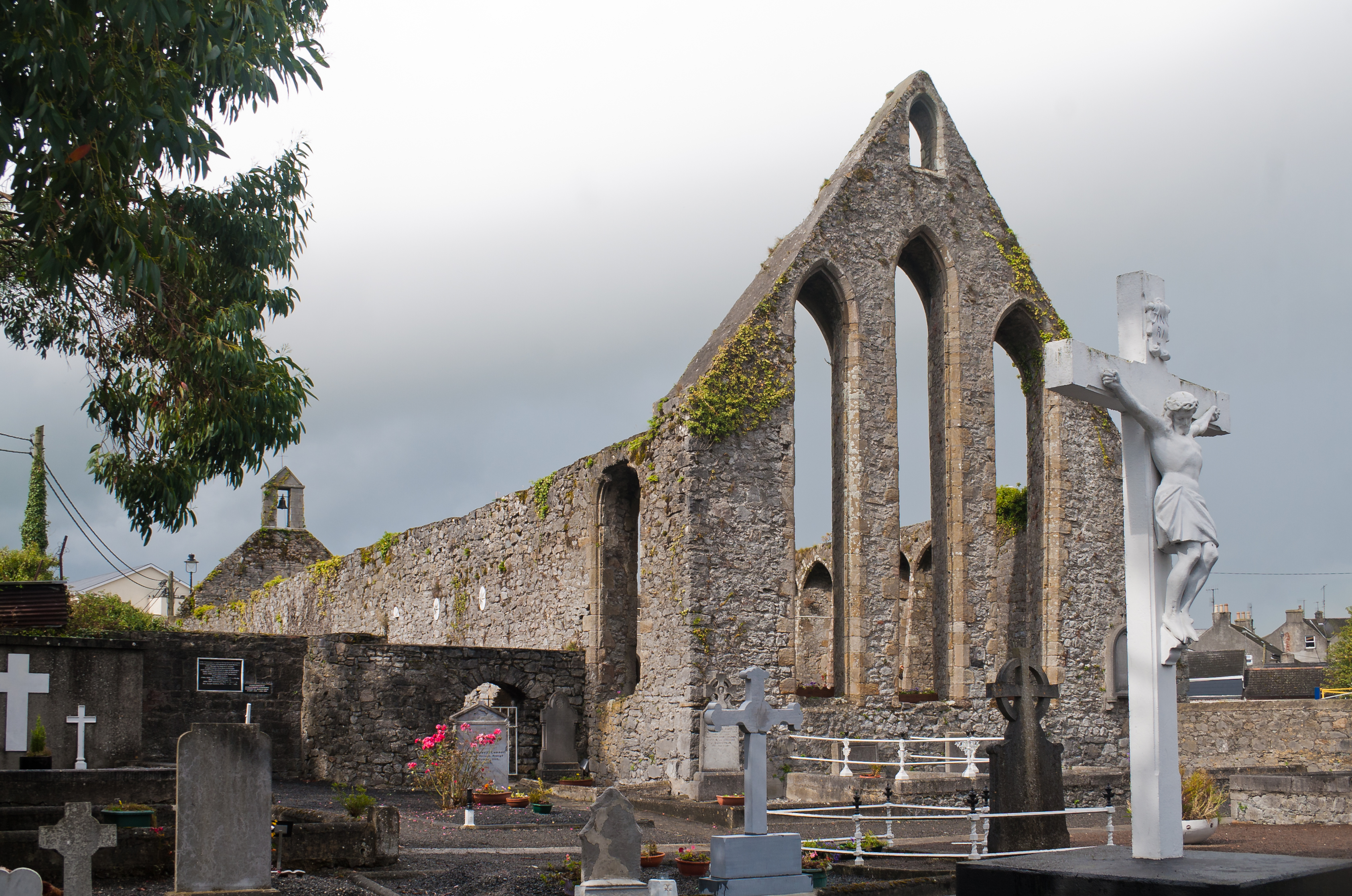 South-east view of the friary.